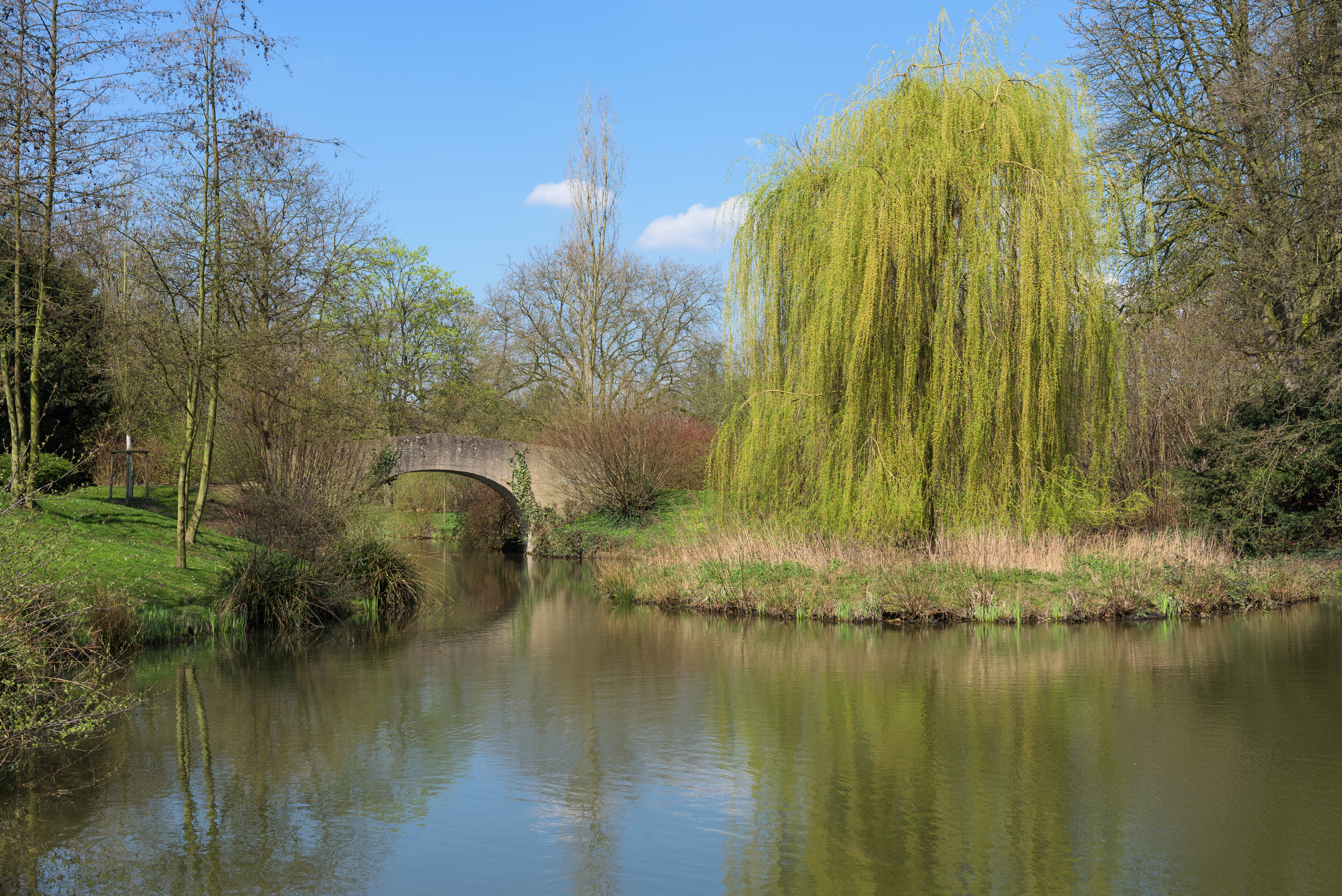 Raffelbergpark in Mülheim in spring